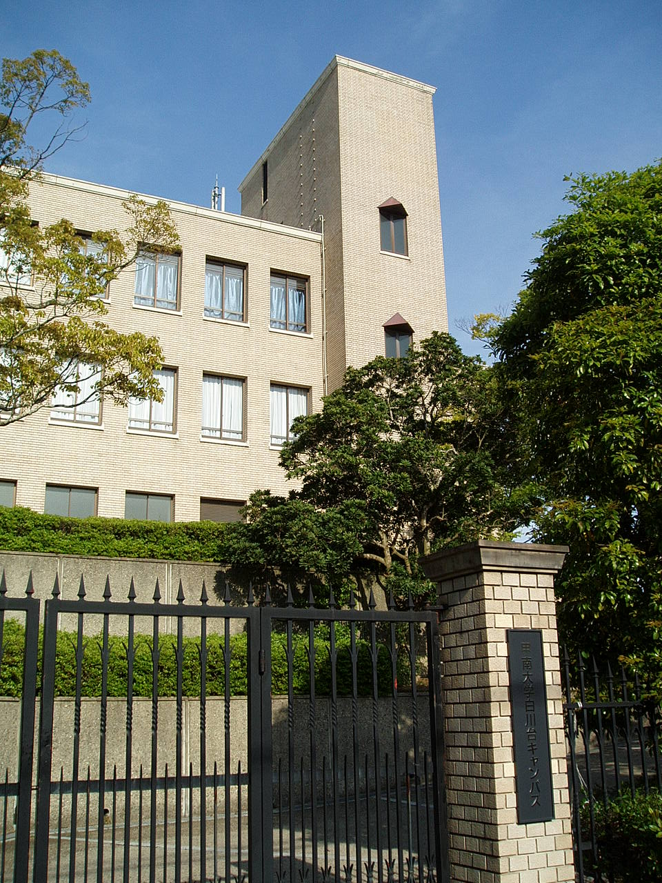 I'll, the seminar house at Shirakawa Campus, Konan University, located in Suma-ku, Kobe, Hyogo, Japan.